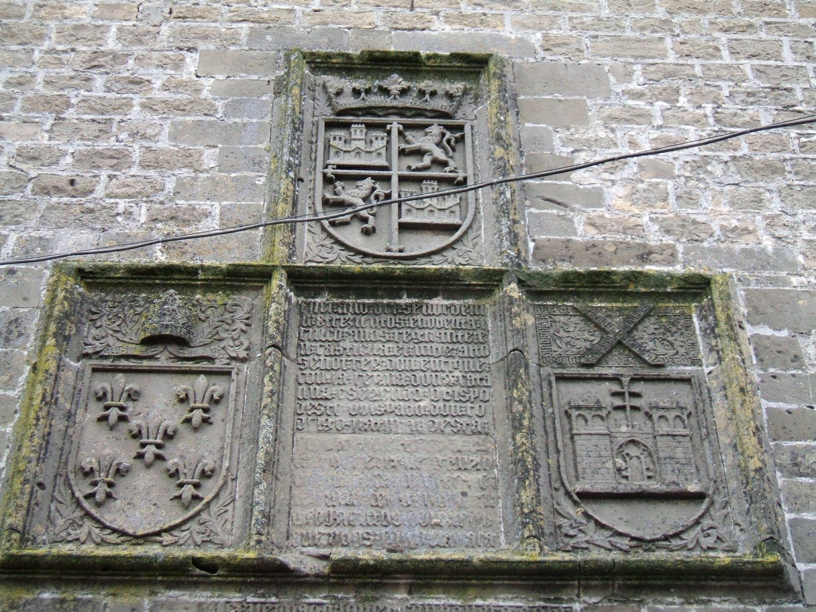 Escudos nobiliarios y leyenda en la fachada de la Catedral de Baeza (Jaén, Andalucía, España)